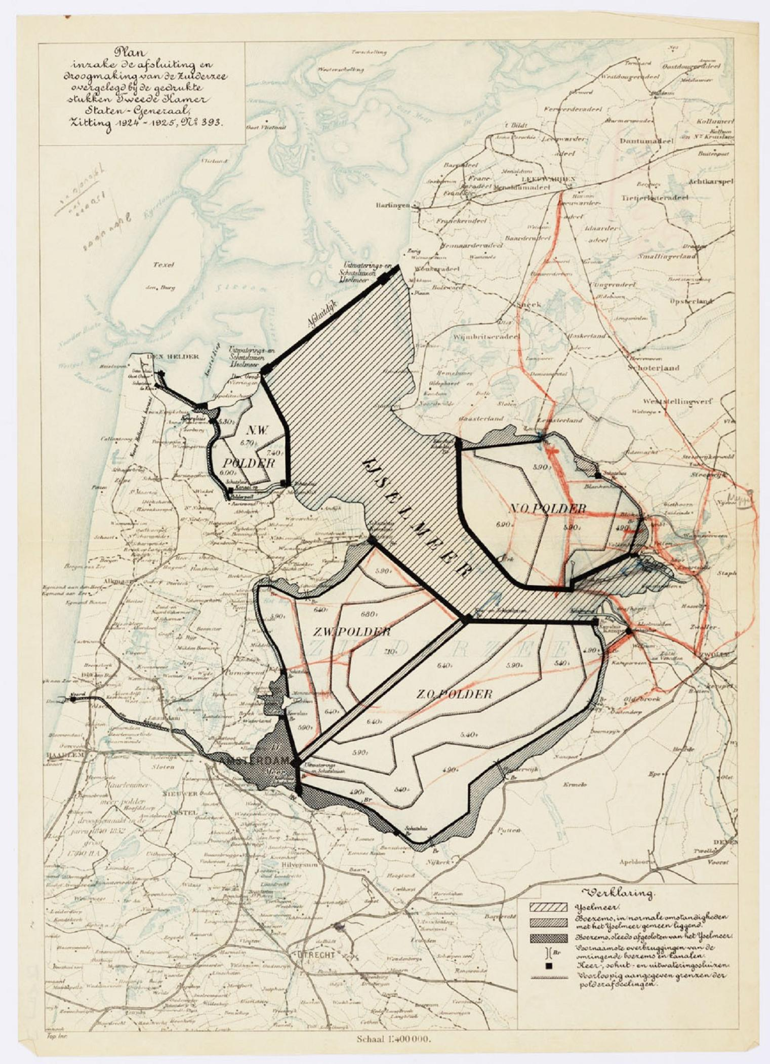 Zuiderzee Works plan done by Cornelis Lely